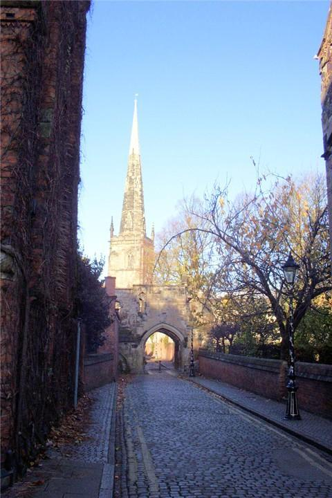 Mary De Castro church and Rupert's Gateway an entrance into the city walls.